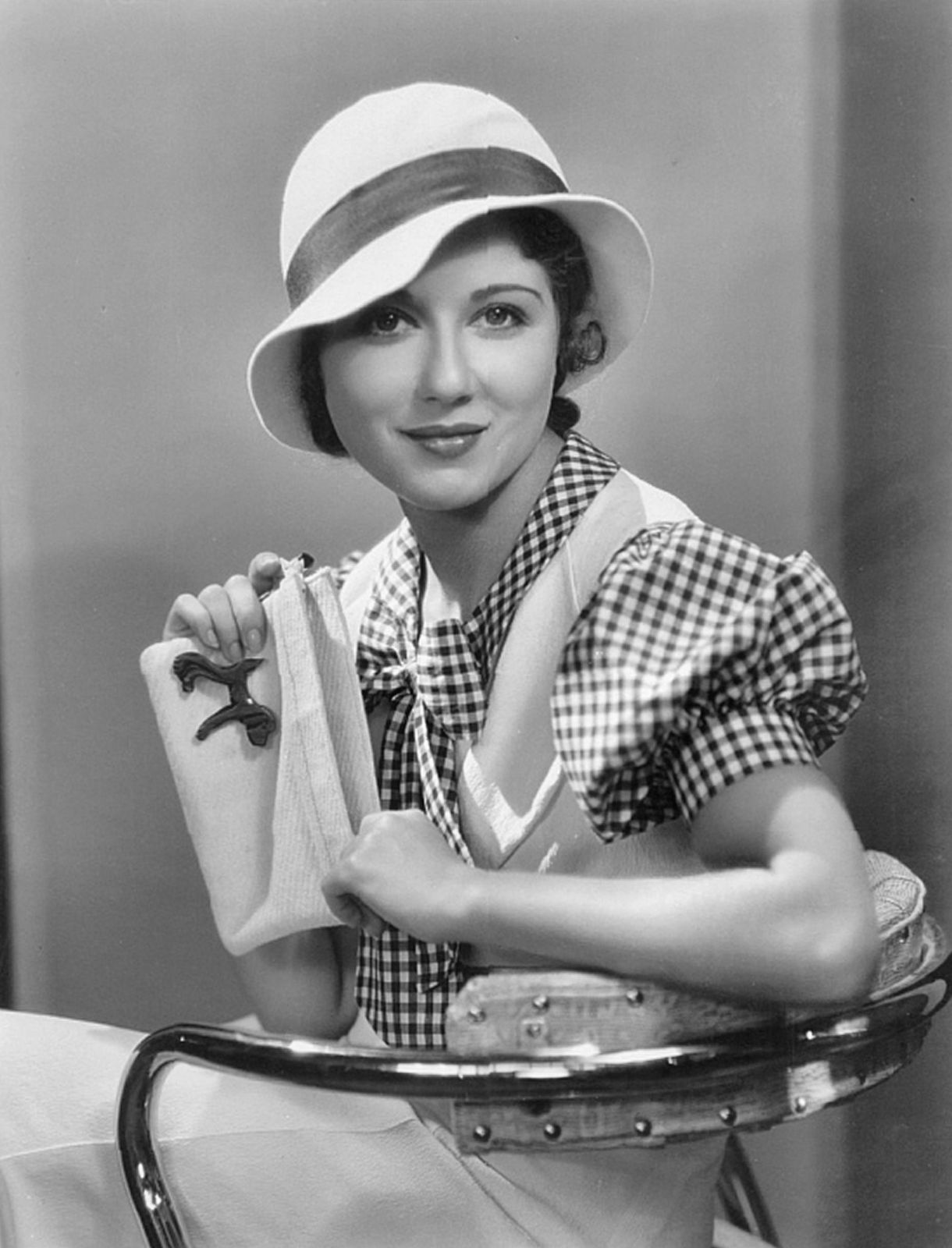 Sidney Fox